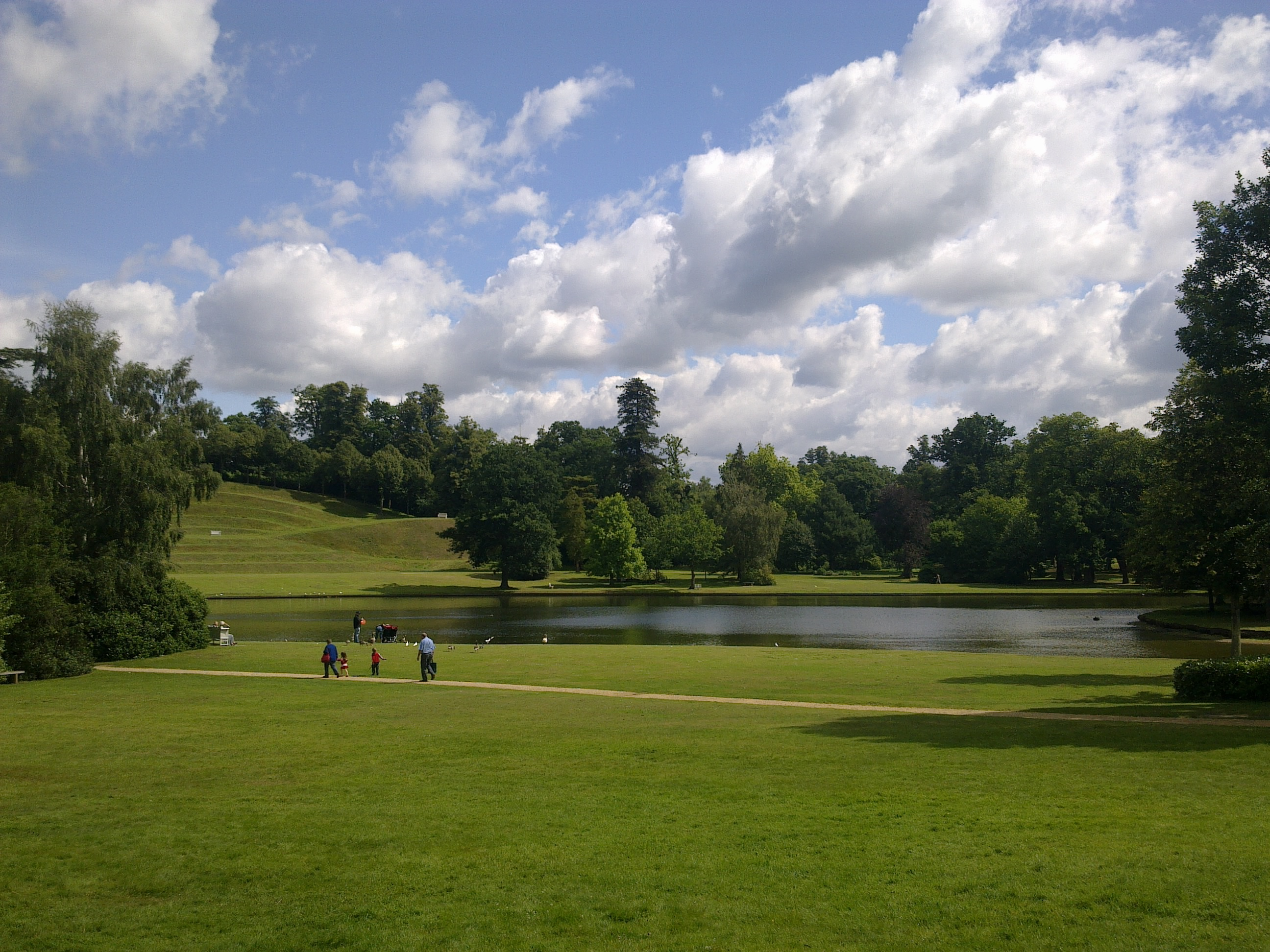 Claremont amphitheatre on left and lake island on right